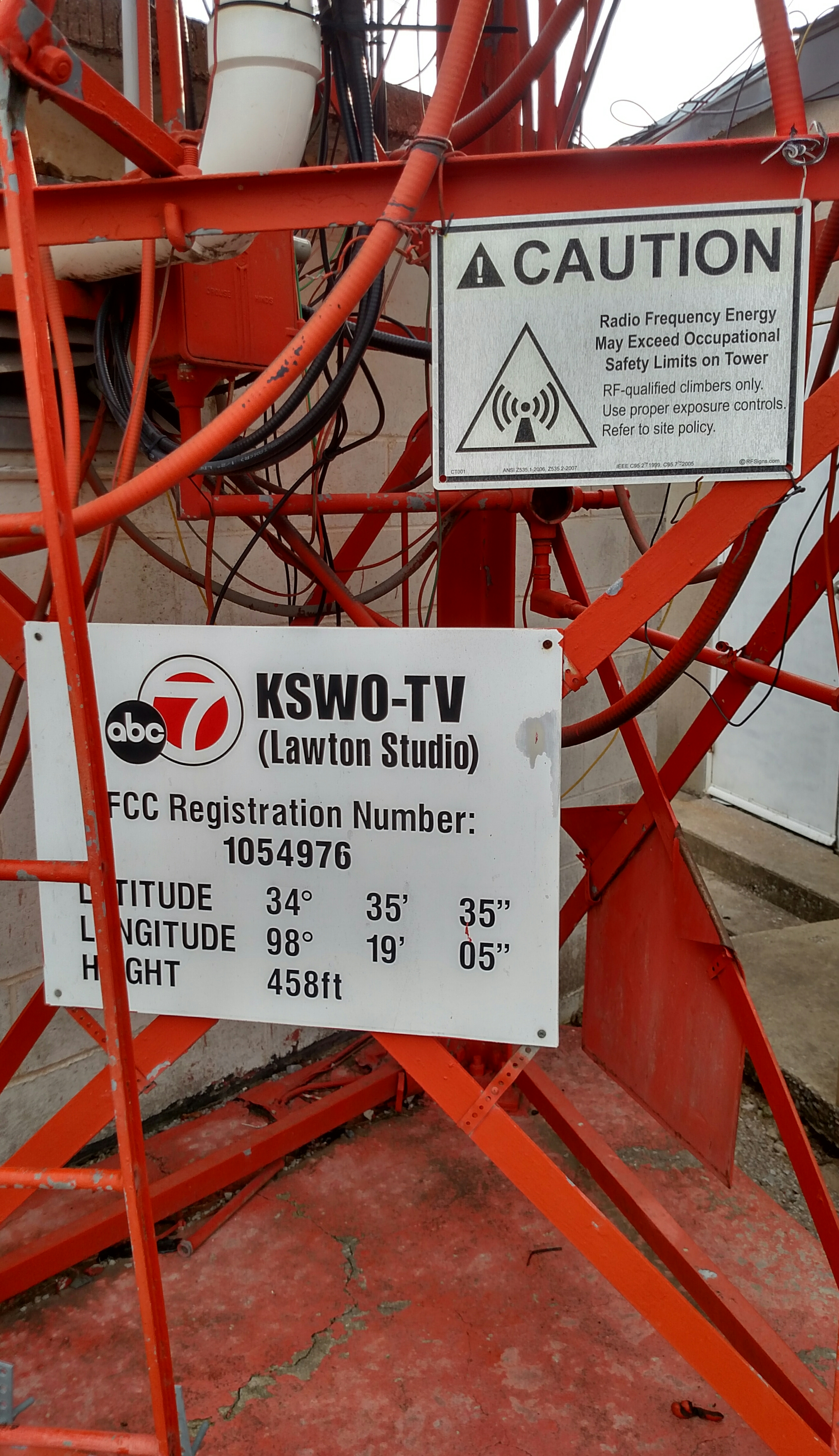 On-site tower information.